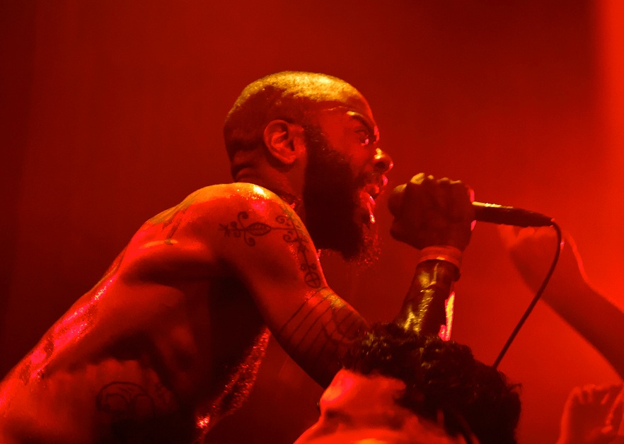 MC Ride performing with Death Grips at Festsaal Kreuzberg